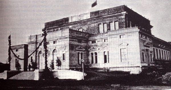 The National Assembly of Bulgaria in 1886.